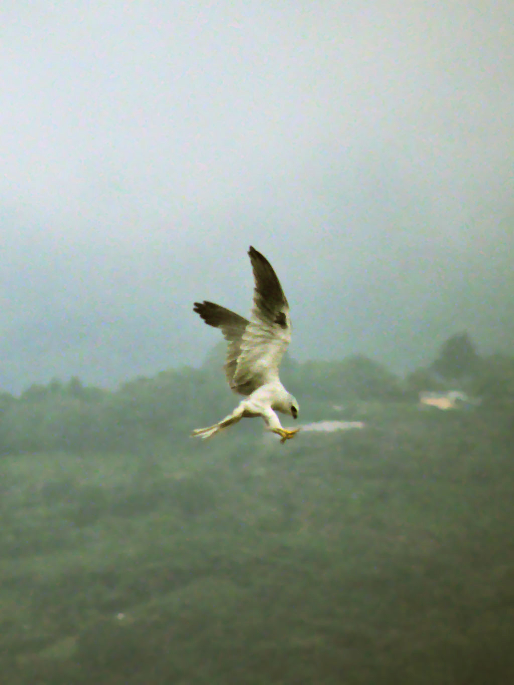 White-tailed Kite Elanus leucurus diving for prey, Escazú, Costa Rica.